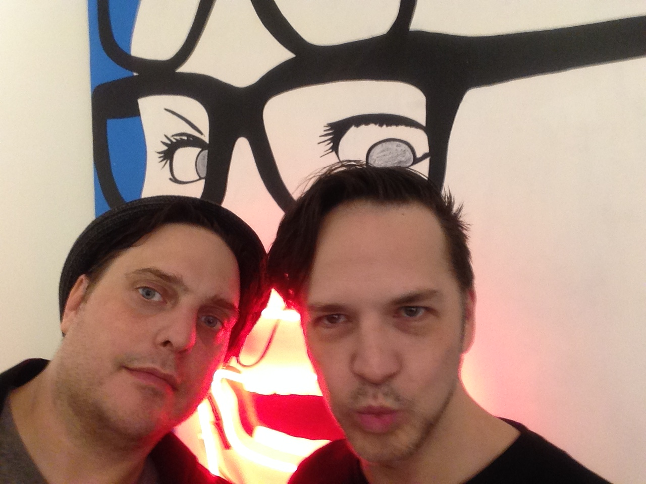 Daniel Genis and Michael Alig